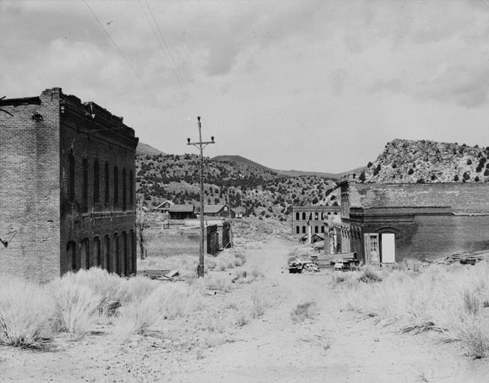 TITLE: Main Street, General View, Aurora (historical), Mineral County, Nevada. c. 1934 image: HABS—Historic American Buildings Survey of Nevada. Historic American Buildings Survey—HABS CALL NUMBER: HABS NEV,11-AURO,1- Historic American Buildings Survey URL